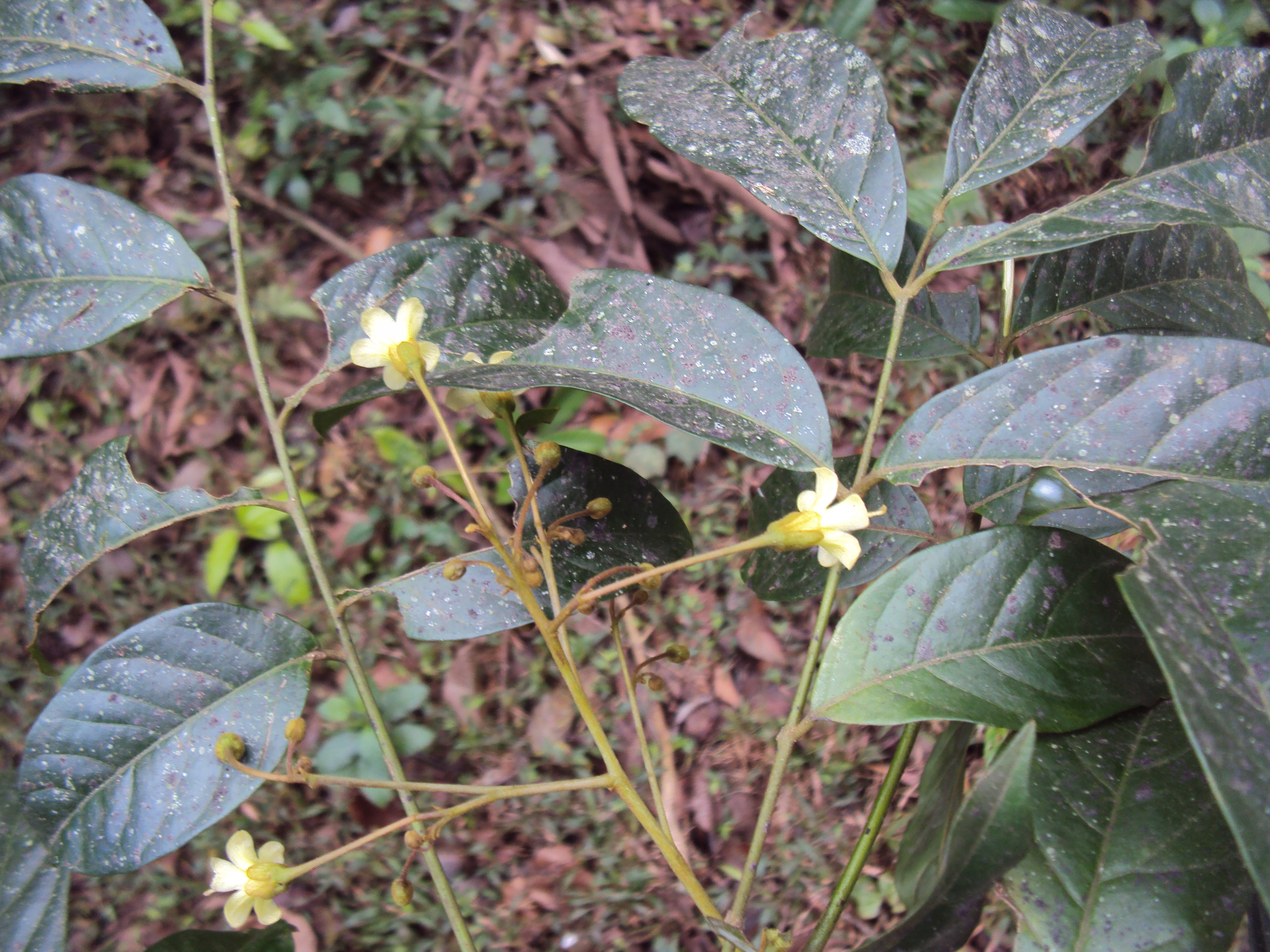 Harpullia arborea